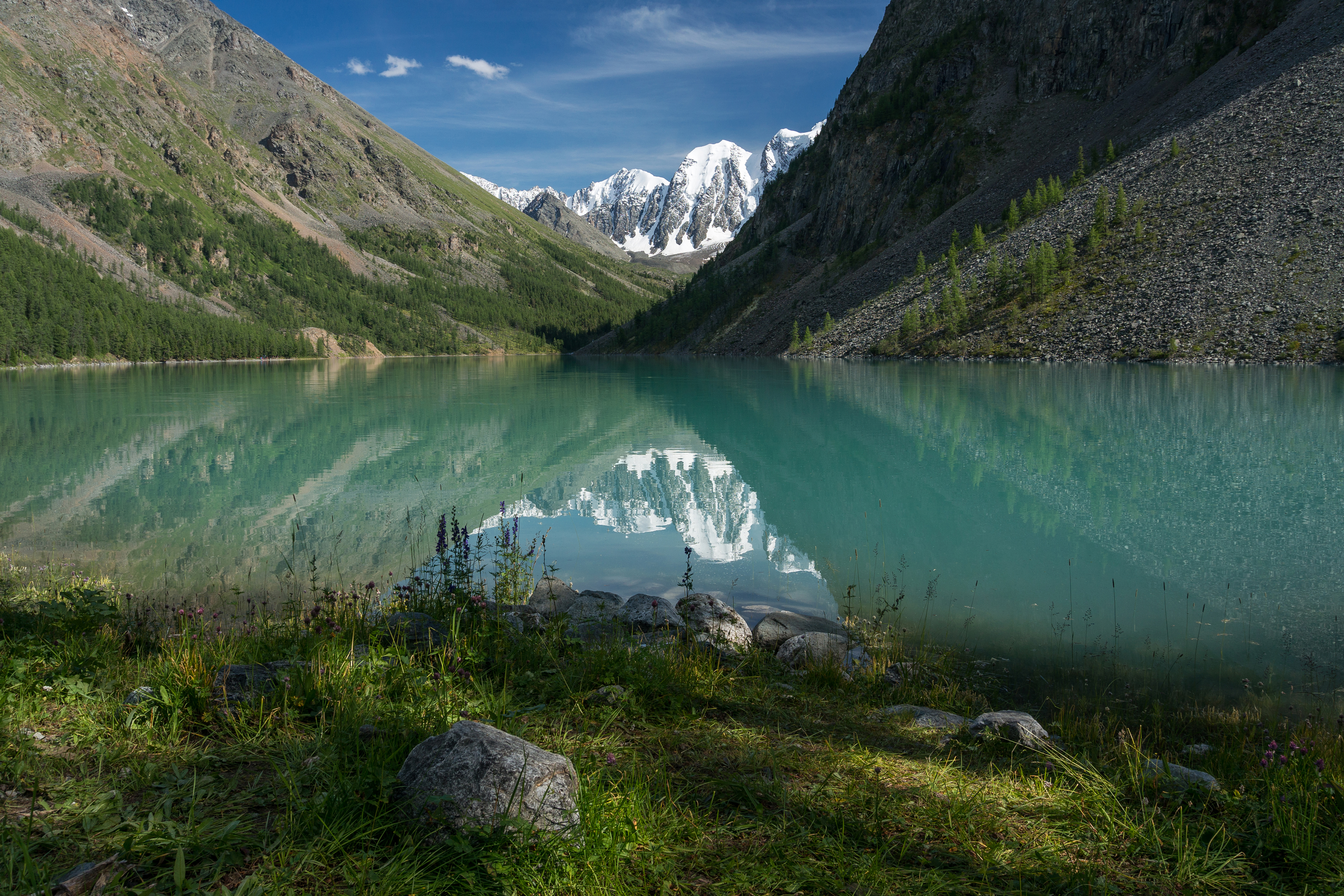 Lower Shavlinskoye Lake, Shavlinsky Sanctuary, Republic of Altai, Russia This image is related to the protected area of Russia number 0410008